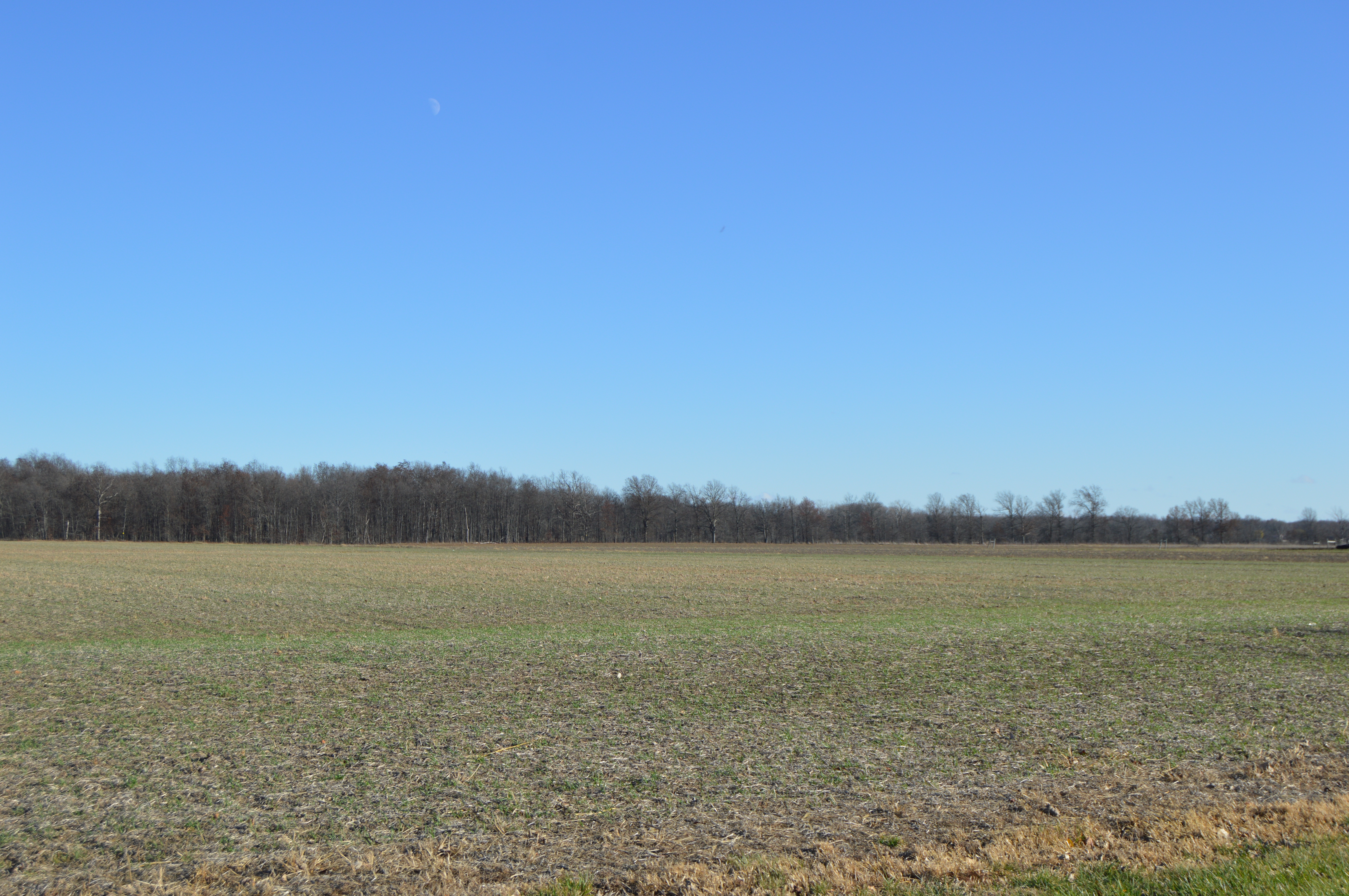 Fields and woods on the eastern side of Openlander Road south of the Jericho Road intersection in Mark Township, Defiance County, Ohio, United States.